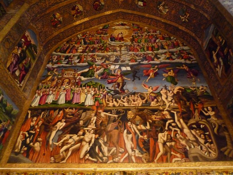 An Armenian fresco depicting Heaven, Earth, and Hell, at the Vank Cathedral in Isfahan, Iran.